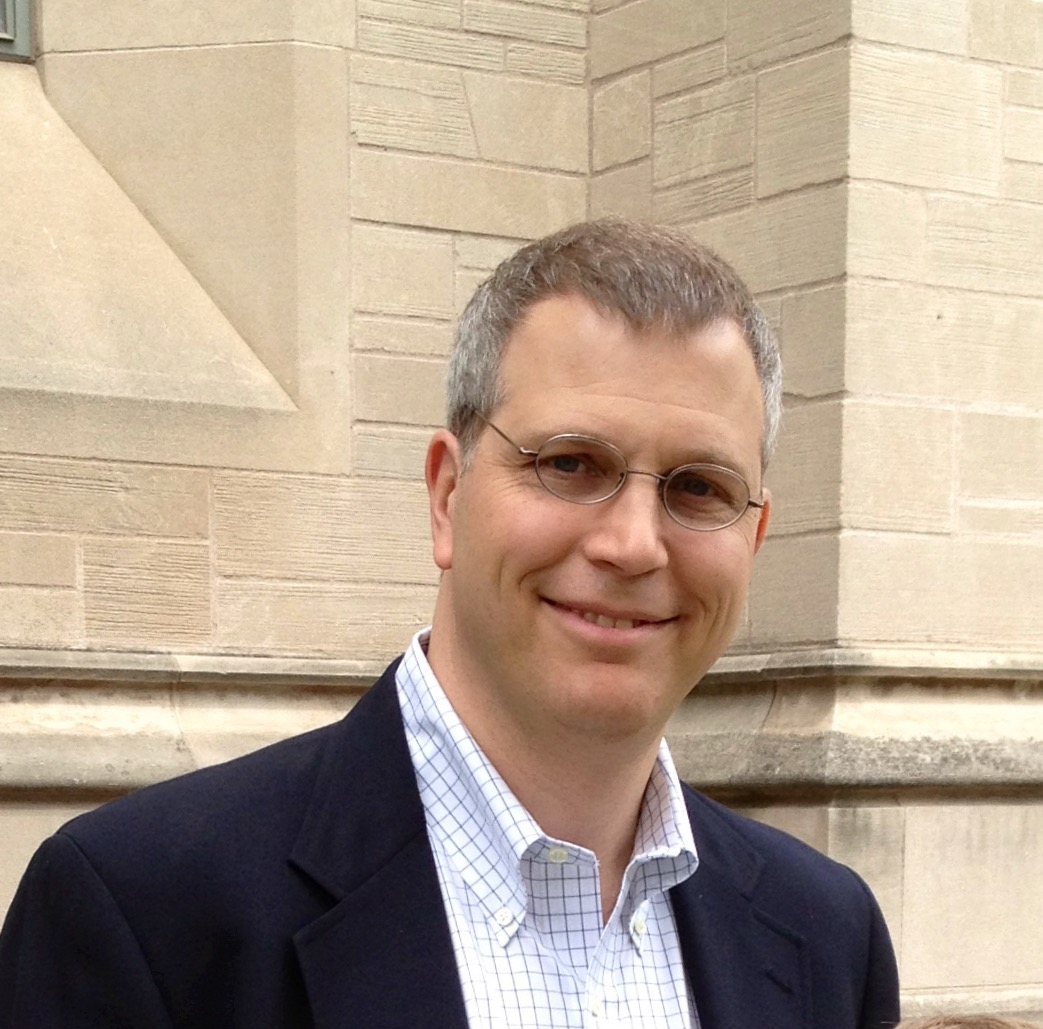 Robert Schoelkopf - July 2014